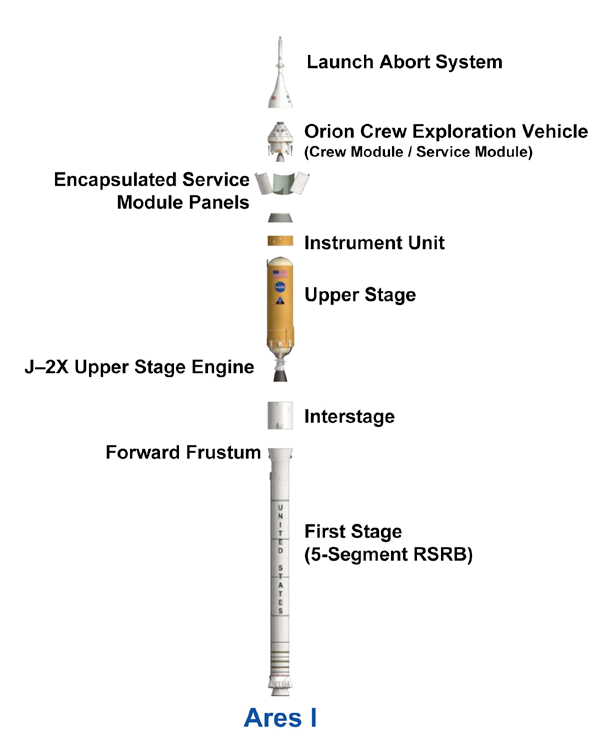 Exploded view of the Ares I Crew Launch Vehicle.